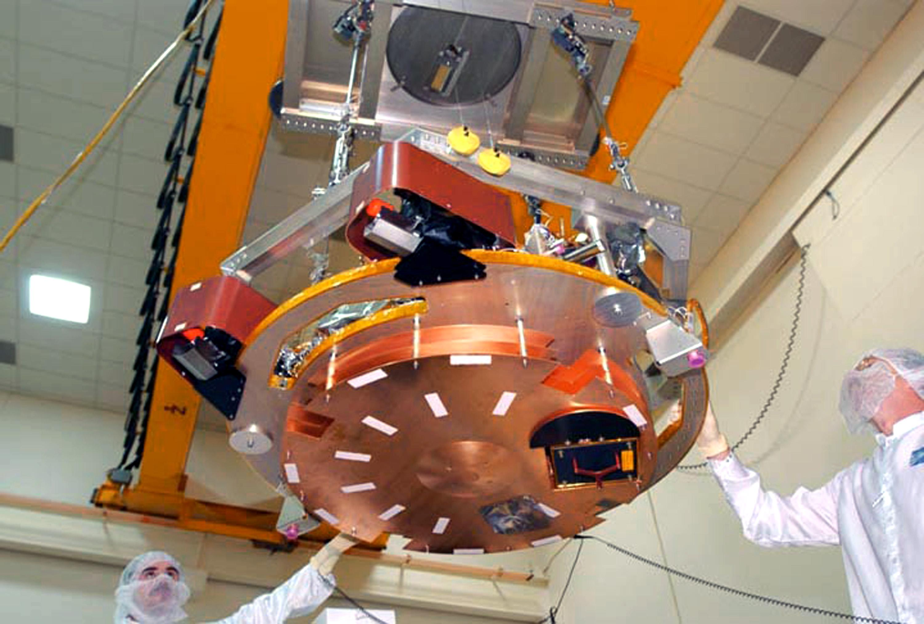 original description: The impactor of the Deep Impact spacecraft, suspended by an overhead crane, undergoes inspection in the Fischer Assembly building at Ball Aerospace in Boulder, Colo. Deep Impact will probe beneath the surface of Comet Tempel 1 on July 4, 2005, when the comet is 83 million miles from Earth, and reveal the secrets of its interior. After releasing a 3- by 3-foot projectile (impactor) to crash onto the surface, Deep Impact’s flyby spacecraft will collect pictures and data of how the crater forms, measuring the crater’s depth and diameter, as well as the composition of the interior of the crater and any material thrown out, and determining the changes in natural outgassing produced by the impact. The impactor will separate from the flyby spacecraft 24 hours before it impacts the surface of Tempel 1's nucleus. The impactor delivers 19 Gigajoules (that's 4.8 tons of TNT) of kinetic energy to excavate the crater. This kinetic energy is generated by the combination of the mass of the impactor and its velocity when it impacts. To accomplish this feat, the impactor uses a high-precision star tracker, the Impactor Target Sensor (ITS), and Auto-Navigation algorithms developed by Jet Propulsion Laboratory to guide it to the target. Deep Impact is a NASA Discovery mission. Launch of Deep Impact is scheduled for Jan. 12 from Launch Pad 17-B, Cape Canaveral Air Force Station, Fla.